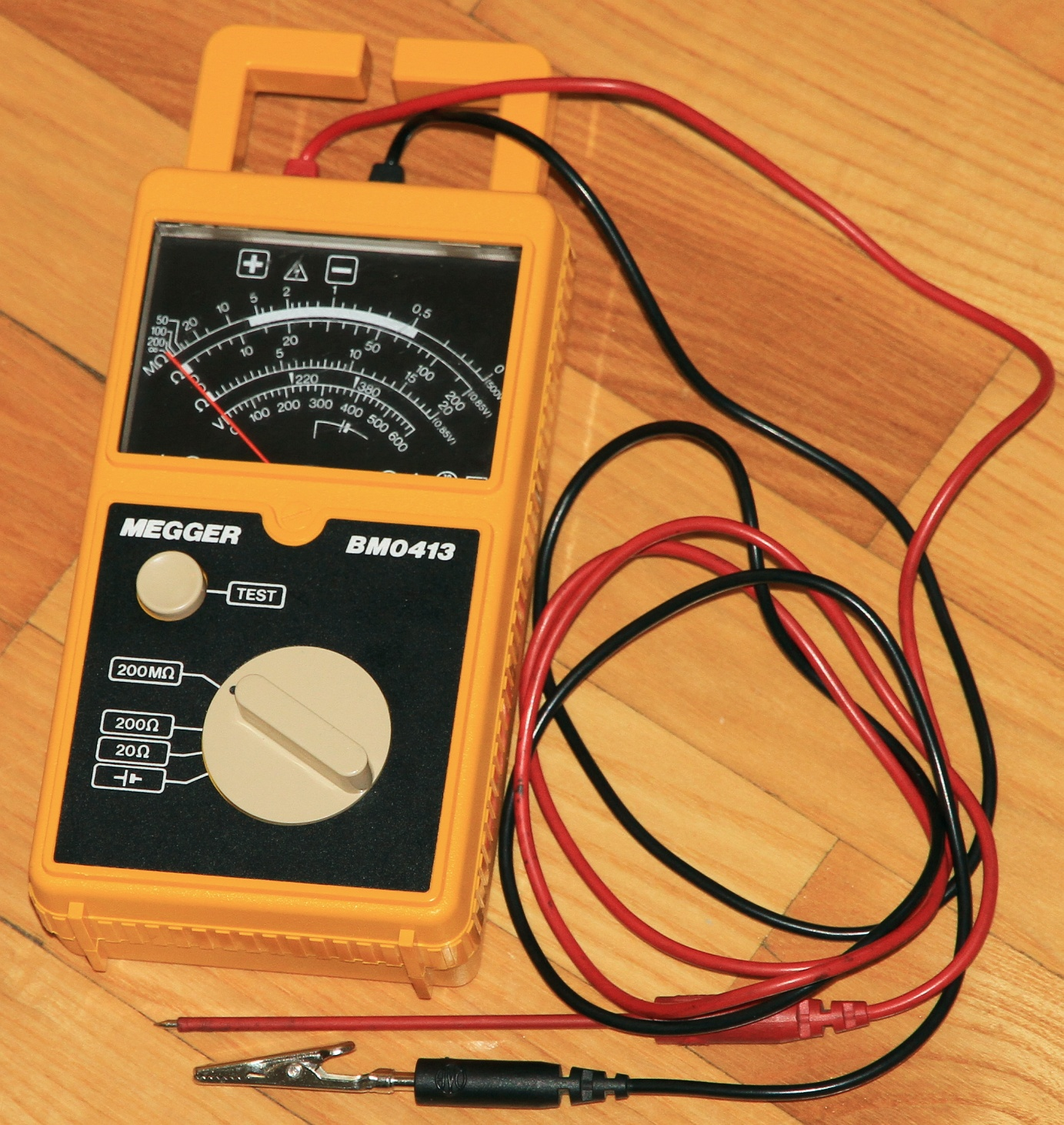 Megger BM0413 by Thorn EMI Instruments Ltd., Dover, England. This sample manufactured March 1988.